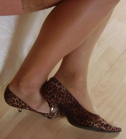 shoe fetishism: high heel shoe